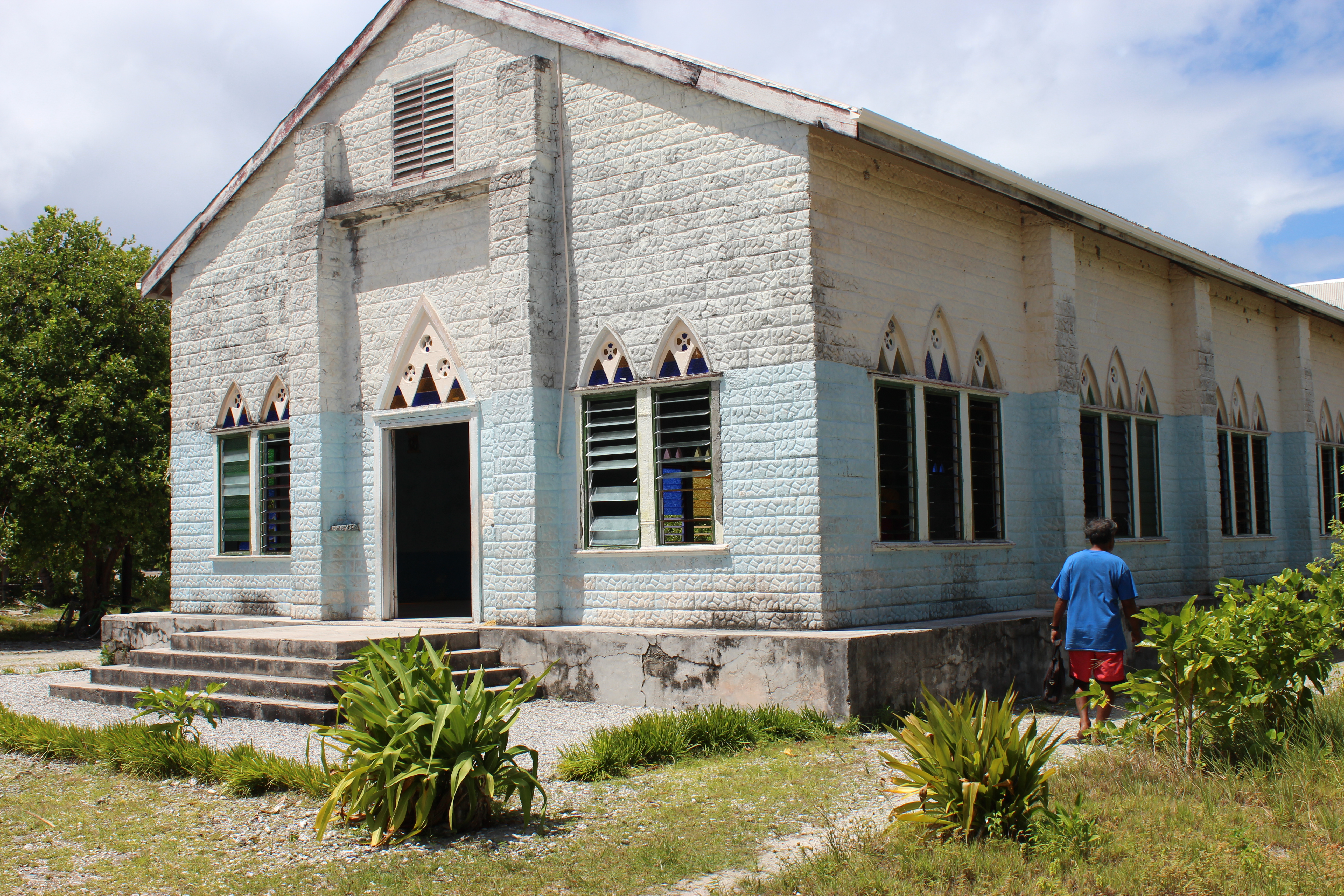 At high tide a handful of houses and the village’s biggest buildings—a Catholic church and giant concrete community hall—are again surrounded by a saltwater moat. ”The contamination of the groundwater started in the late ’70s, and after that erosion started and houses started to fall into the sea,” recalls Mr Aata Maroieta, Village Chief of Tebunginako. ”The force of erosion was stronger than the sea walls and eventually the government said that all we could do was relocate.”